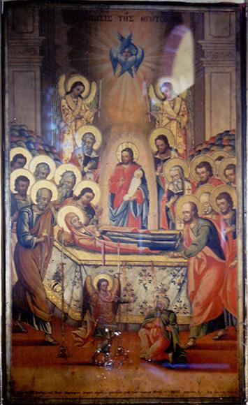 Assumption of Mary Icon from Saint George Church in Melissourgos